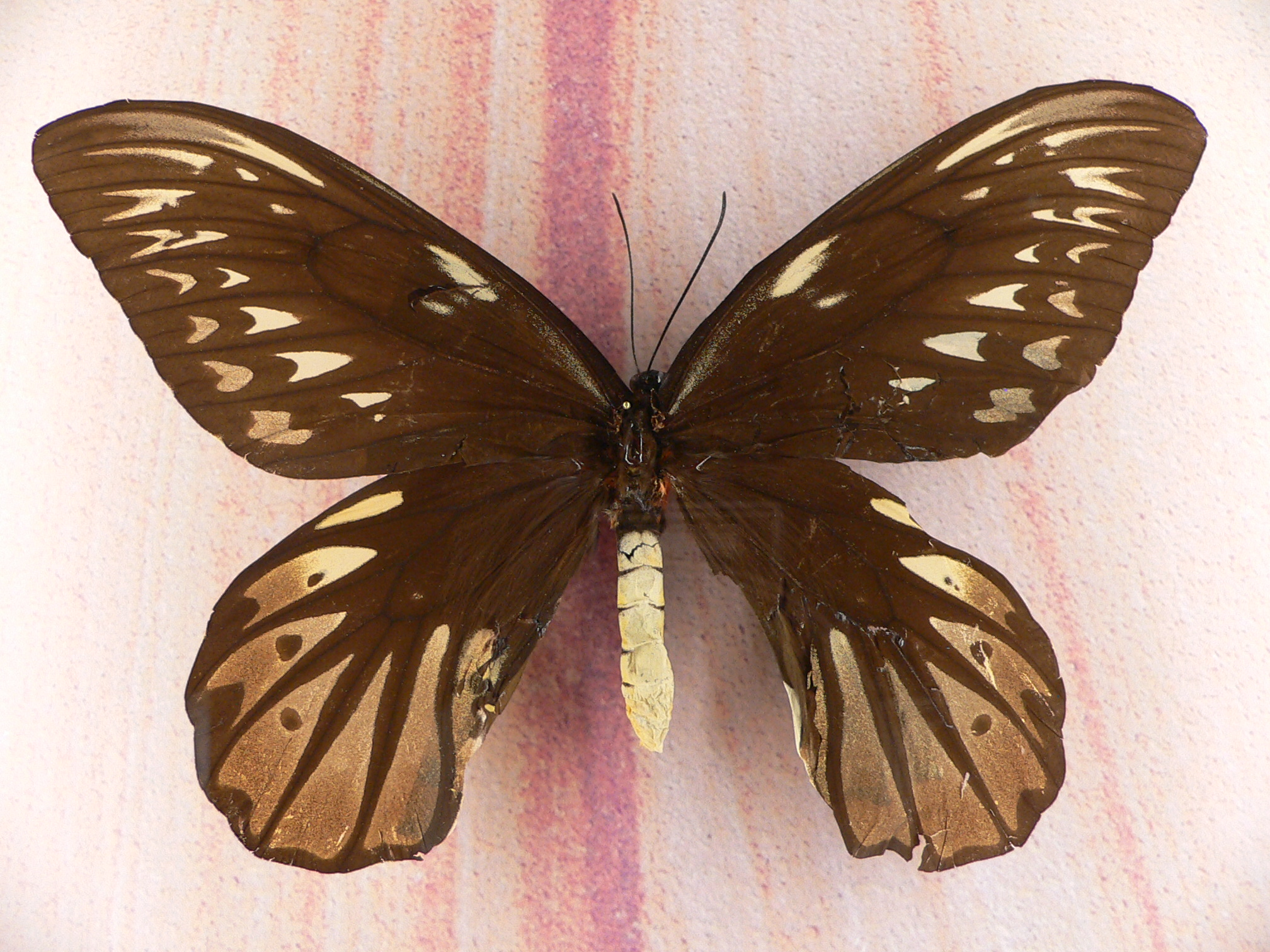 Queen Alexandra's birdwing (Ornithoptera alexandrae) photographed at the Audubon Insectarium.